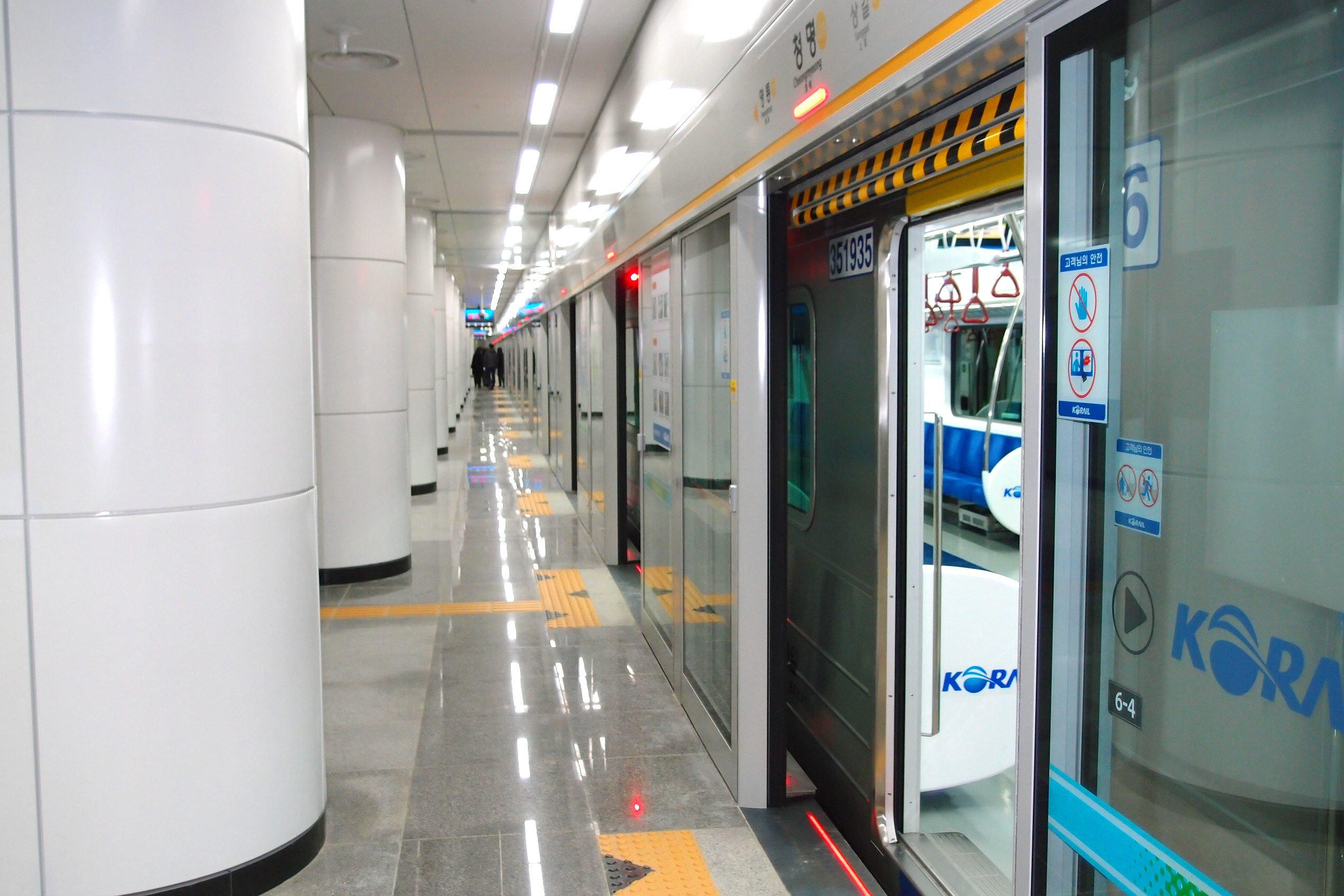 K239 Cheongmyeong station platform